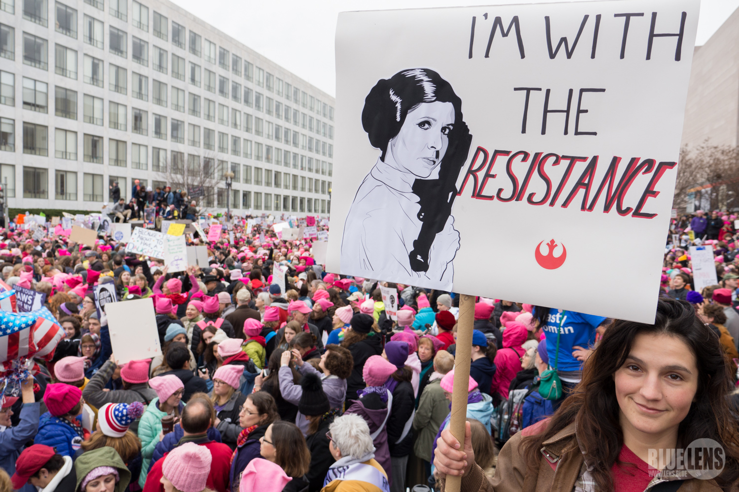 Trump-WomensMarch_2017-1510050